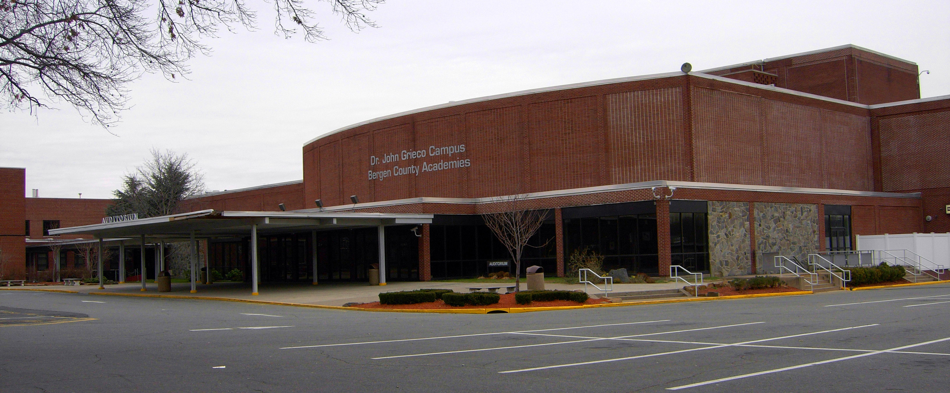 Photo taken by Andy M. Wang Christmas Day 2006. Image was photoshopped with Adobe CS. Licensed to Creative Commons 2.5 on April 16 2007.